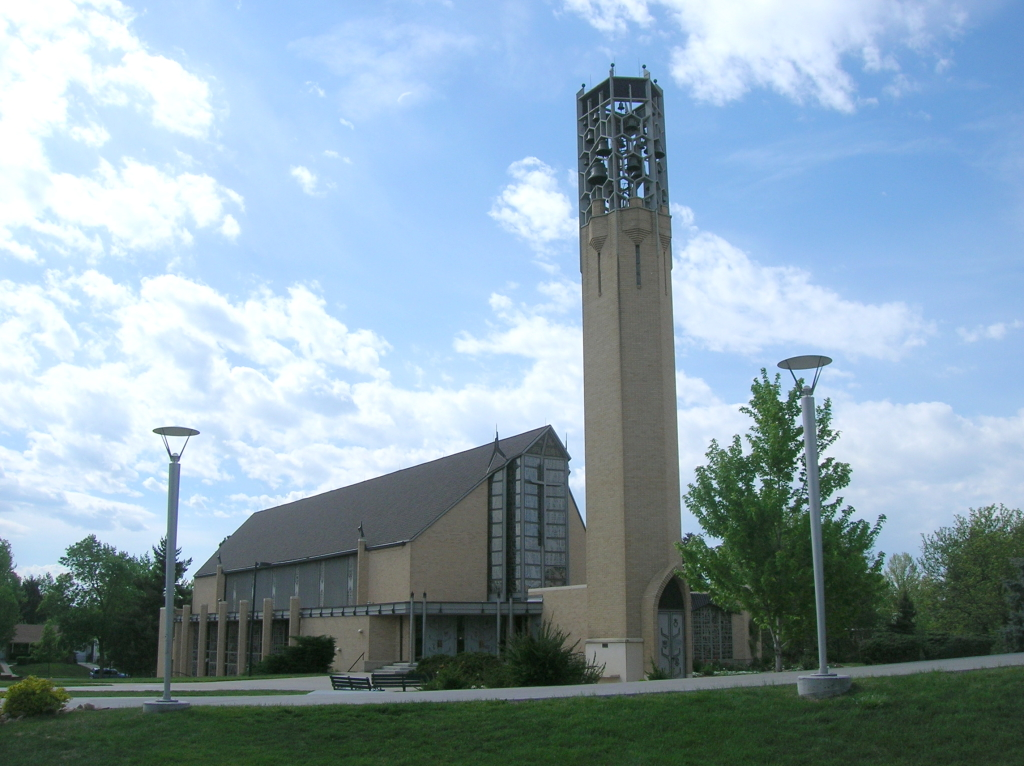 This is a photo facing east to west of the chapel at the former Colorado Women's College campus in Denver, Colorado. For a time, the campus belonged to the University of Denver. Now it is home to the Denver satellite campus of Johnson & Wales University.